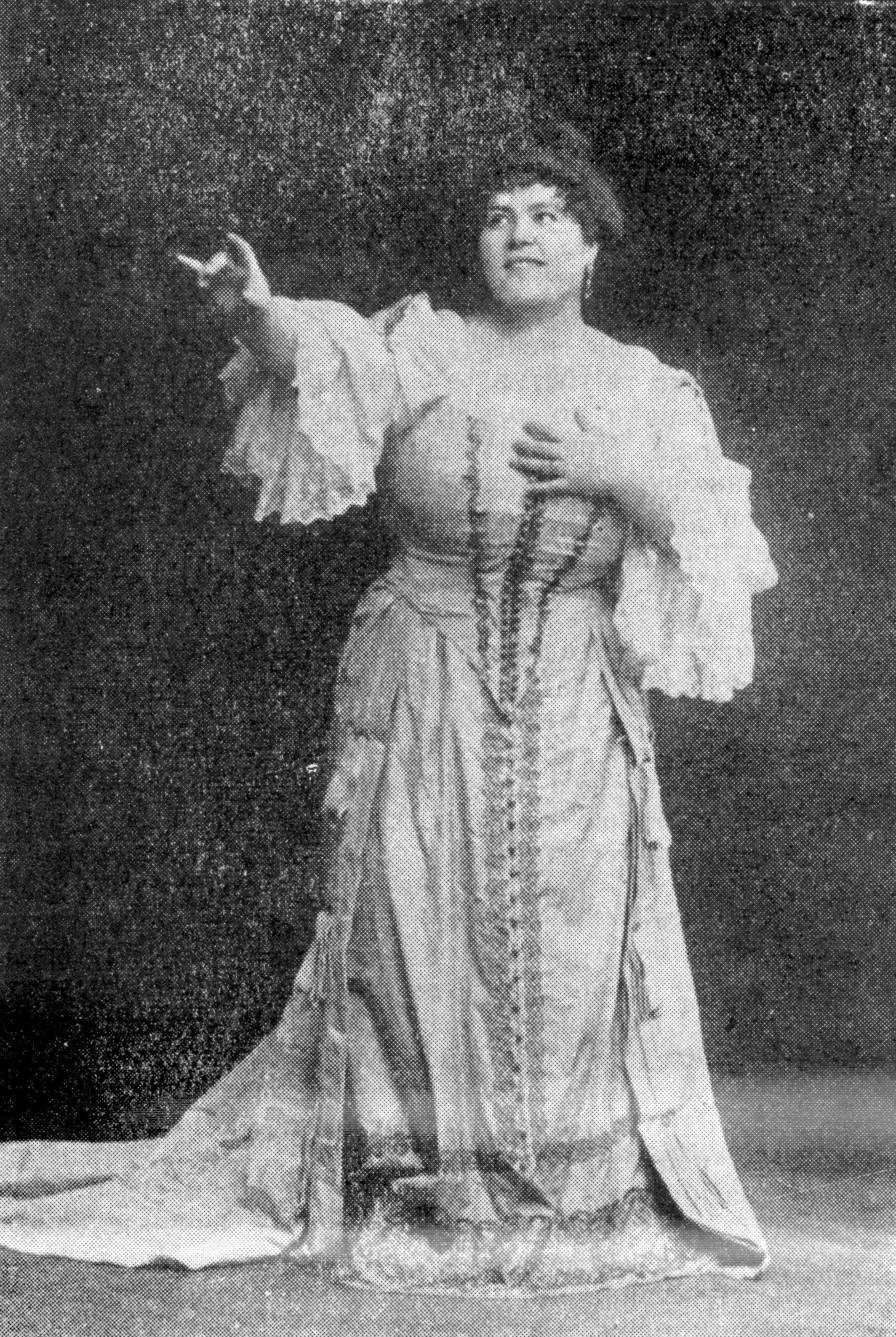 Bulgarian opera singer Hristina Morfova (1889-1936)